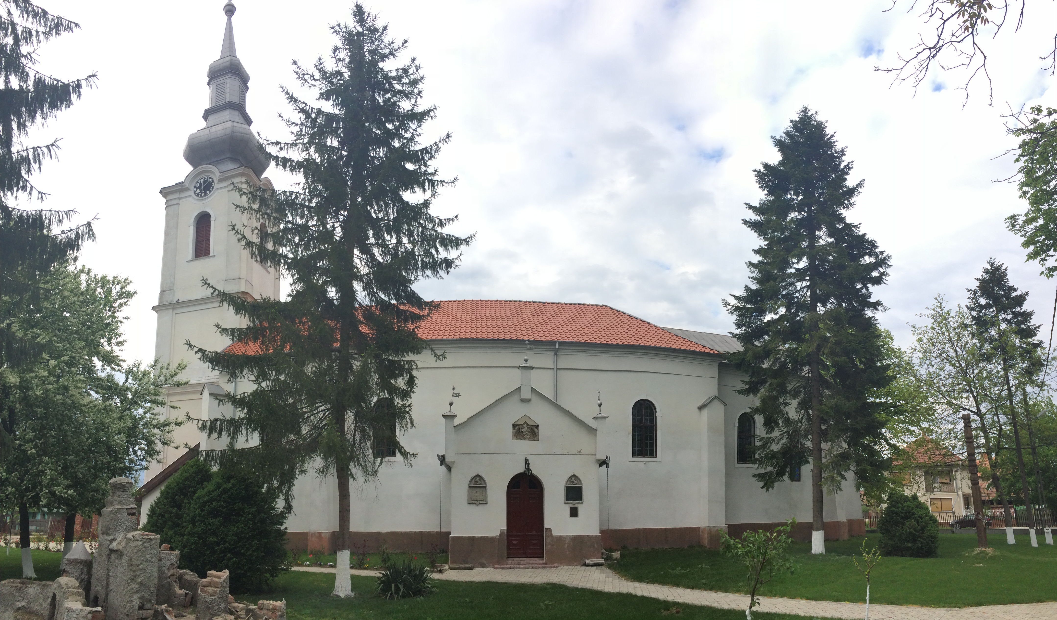 Reformed Church, Sacueni, Bihor county, RomaniaRomână: Biserica Reformată, Săcueni, jud. Bihor